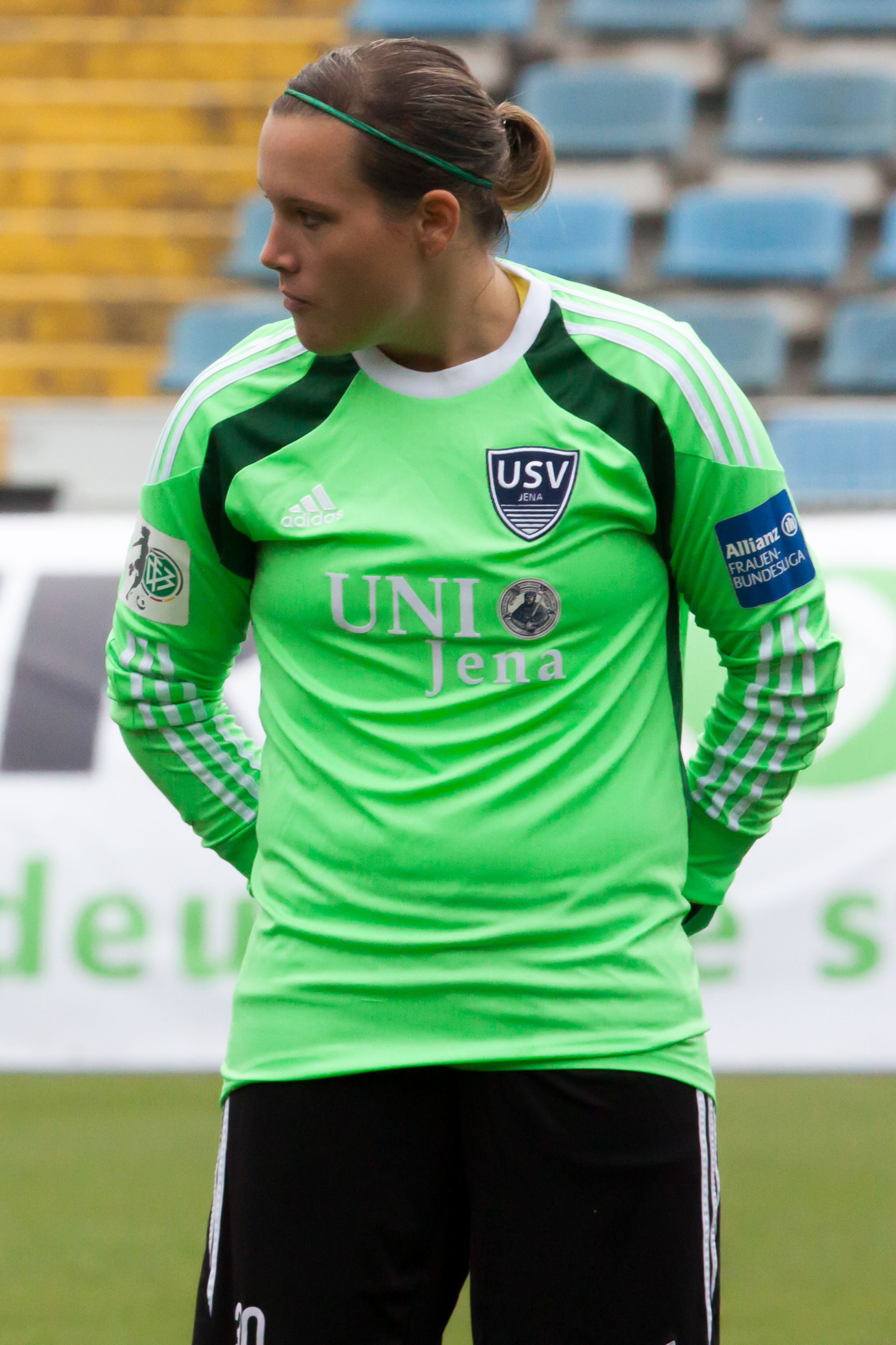 German Women Bundesliga soccer game: FF USV Jena vs. TSG 1899 Hoffenheim, 2014-10-11, at Ernst-Abbe-Sportfeld Jena.